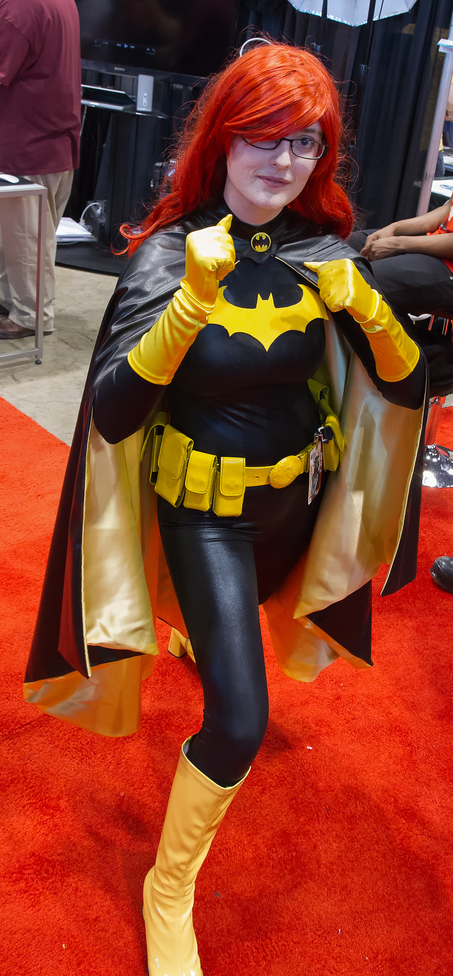 Cosplay at the 2013 Chicago Comic & Entertainment Expo (C2E2).